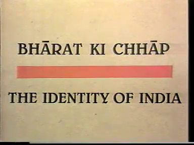 Title Screen of TV Series Bharat ki Chhap (1987)